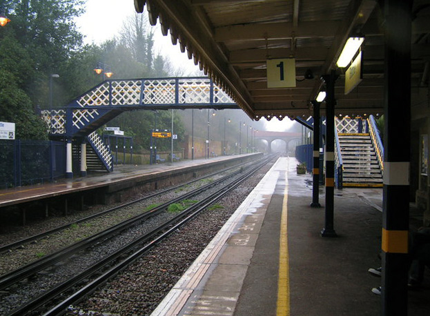 Battle Railway station